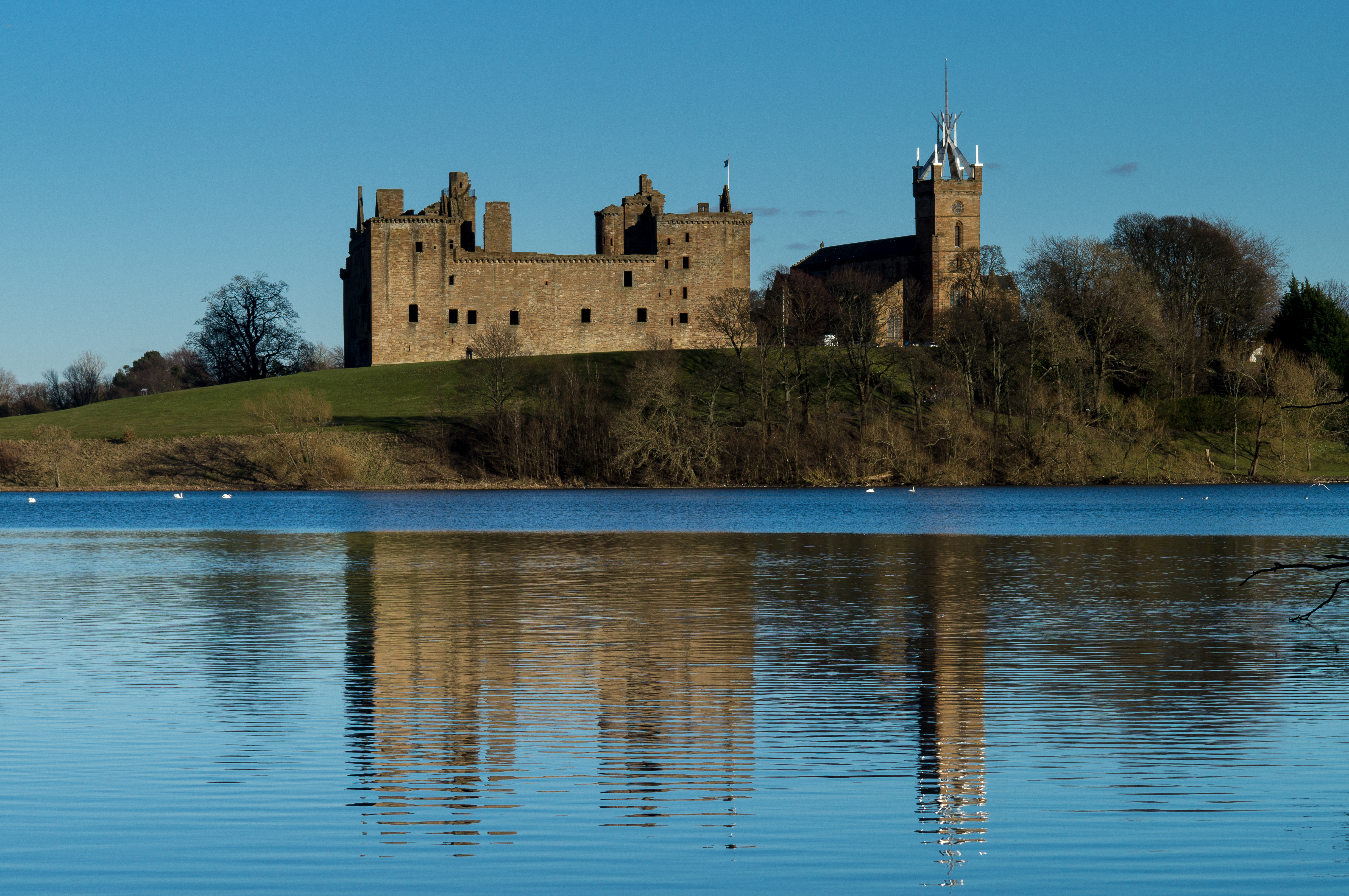 Linlithgow Palace Wikidata has entry Q564868 with data related to this item.